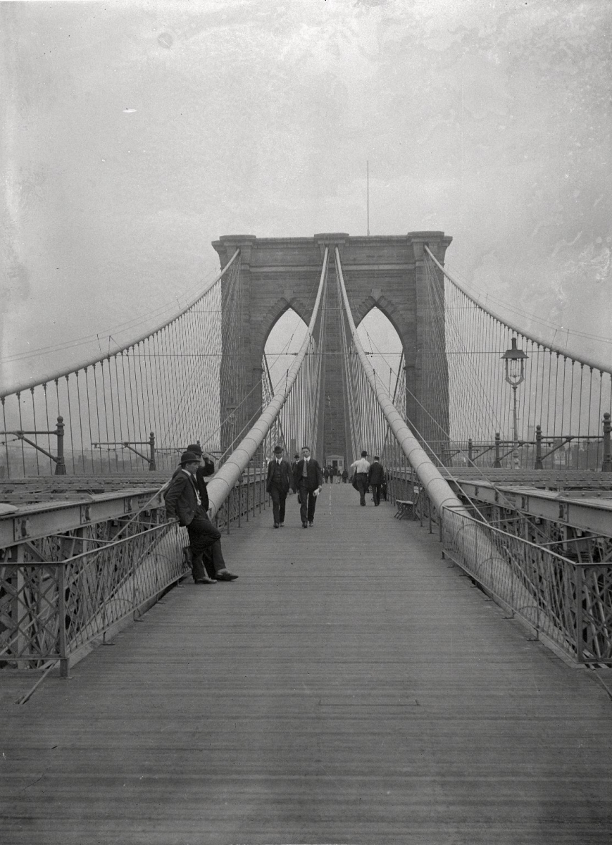 Daniel Berry Austin (American, born 1863, active 1899-1909). Brooklyn Bridge, Looking East, New York City Side, July 7, 1899. Glass plate negative, 5 x 7 in. (12.7 x 17.8 cm). Prints, Drawings and Photographs. Brooklyn Museum/Brooklyn Public Library, Brooklyn Collection, 1996.164.1-973. (1996.164.1-973_glass_SL1.jpg) Thank you, BillRhodesPhoto! This image has been geotagged by BillRhodesPhoto so Brooklyn could be part of the Historypin launch on July 11, 2011. Want to help? See if you can place any of these images on a map! More about #mapBK